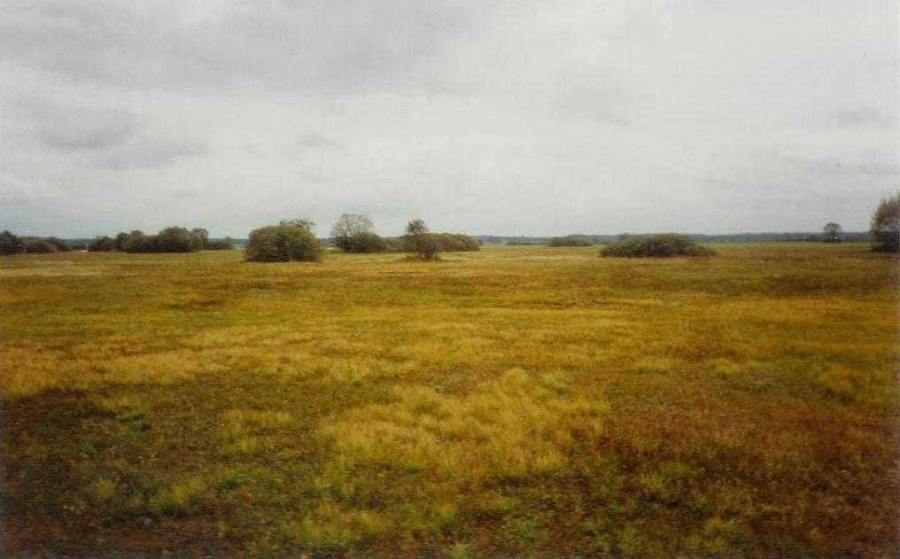 The Chruściel marsh (Poland) in autumn